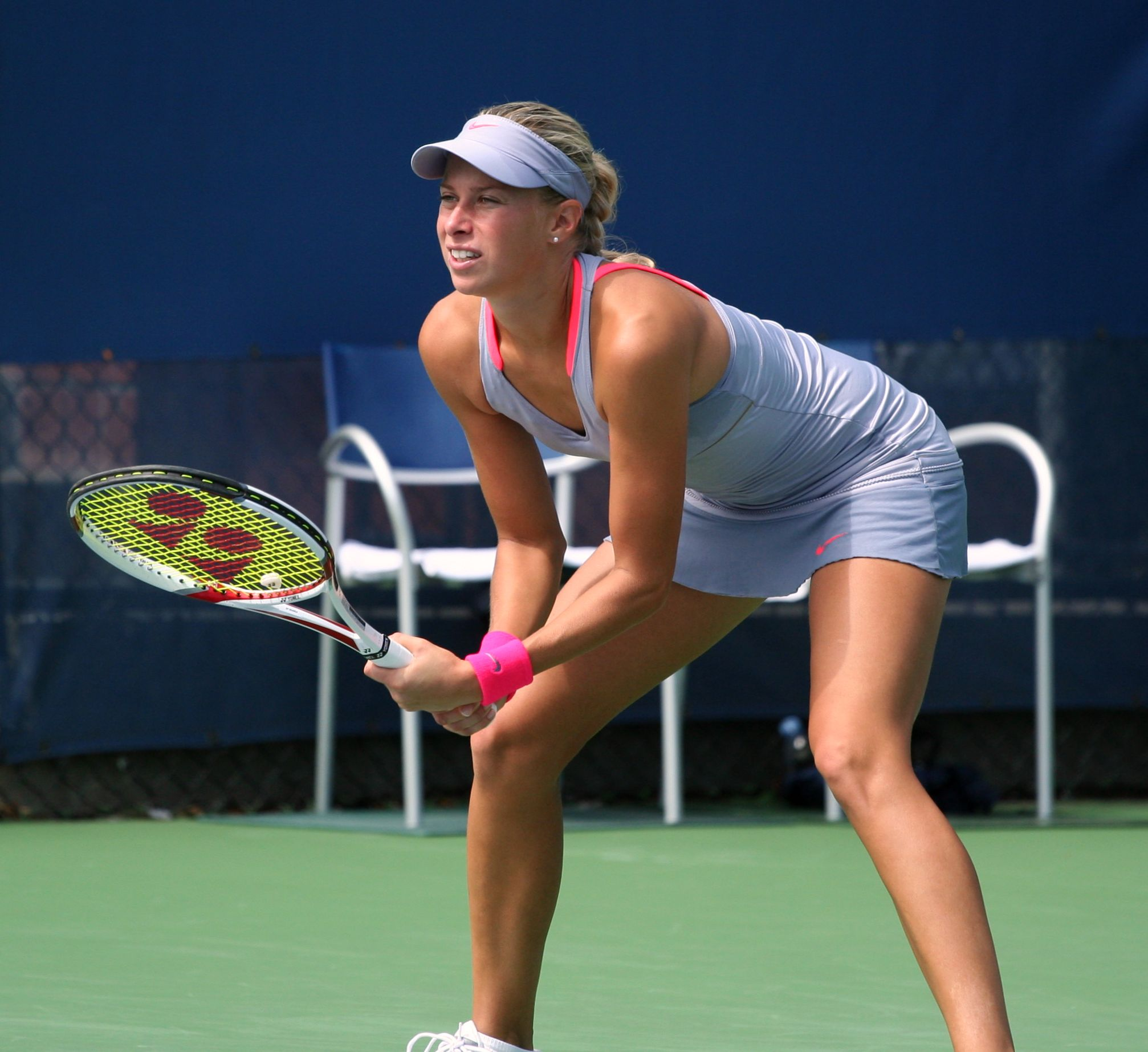 Hlavackova at the US Open 2011